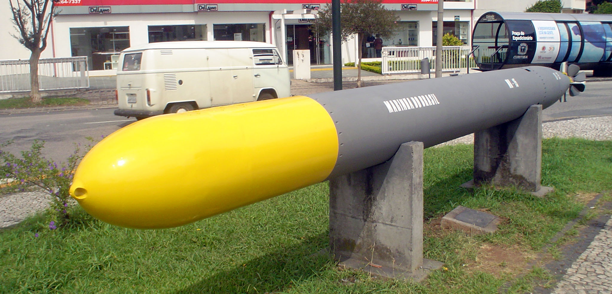 A torpedo in the courtyard of the Museu do Expedicionário, Curitiba, Brazil